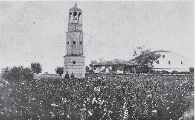 Village of Gorgopik or Gorgopi, Greece, - church, tower and bulgarian school